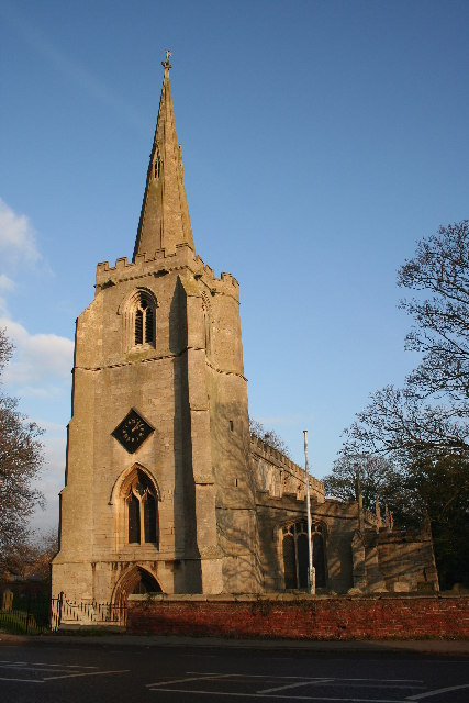 St.Laurence's church, Surfleet, Lincs.